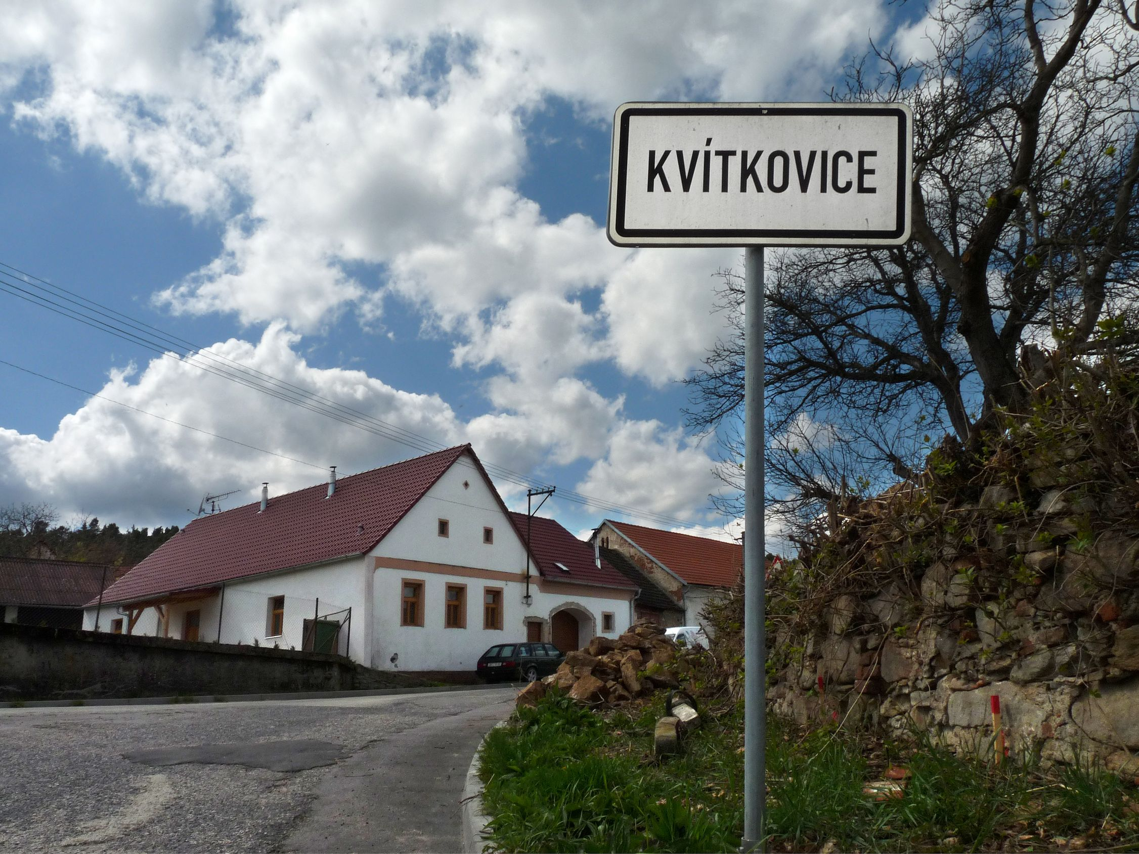 Municipal border sign of the village of in the village of Kvítkovice, České Budějovice, Czech Republic.